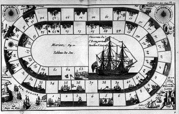 Jeu de marine – French version of the game of the goose from the year 1792.